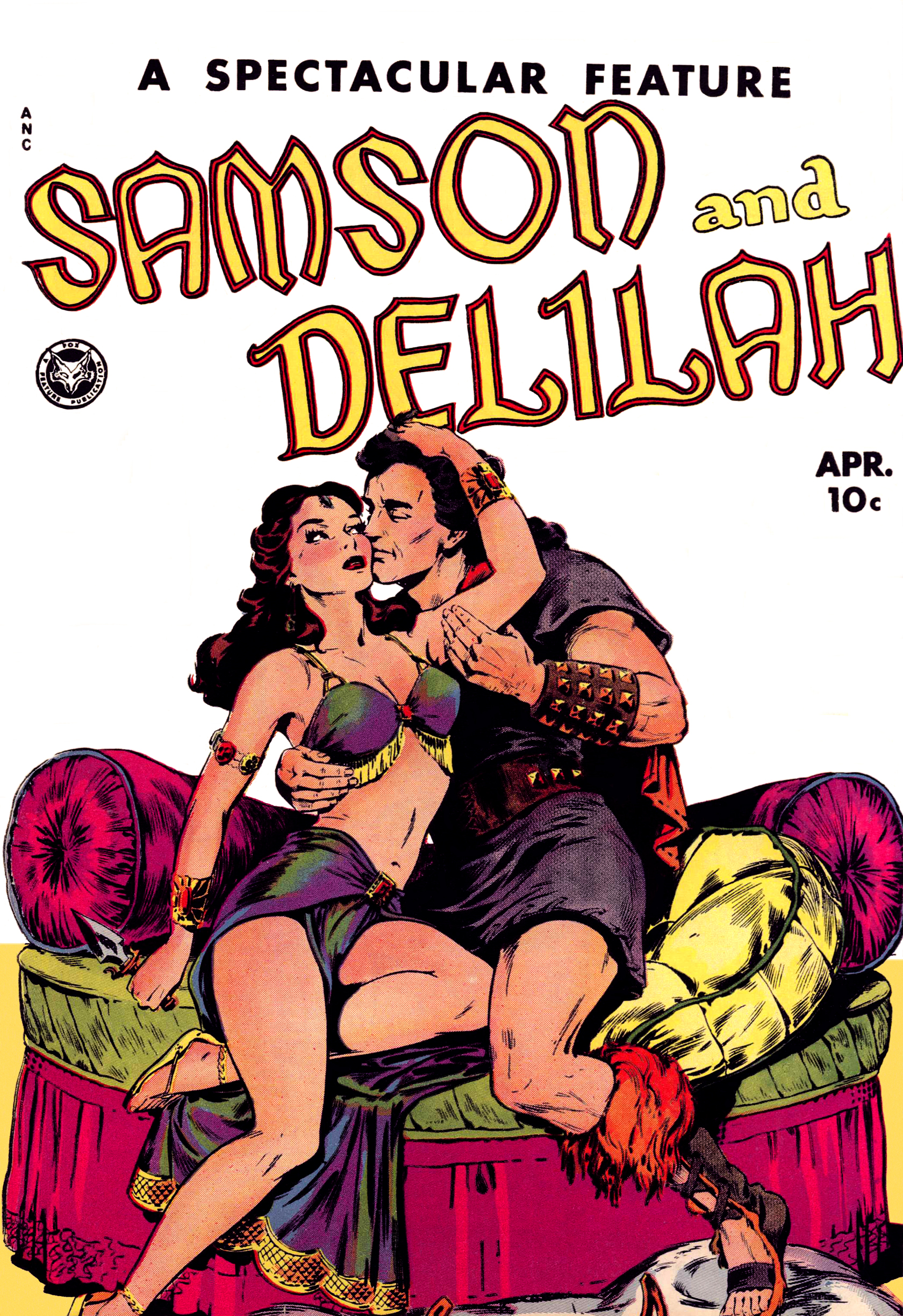 Cover of A Spetacular Feature #11, adaptation of Sansom and Delilah story